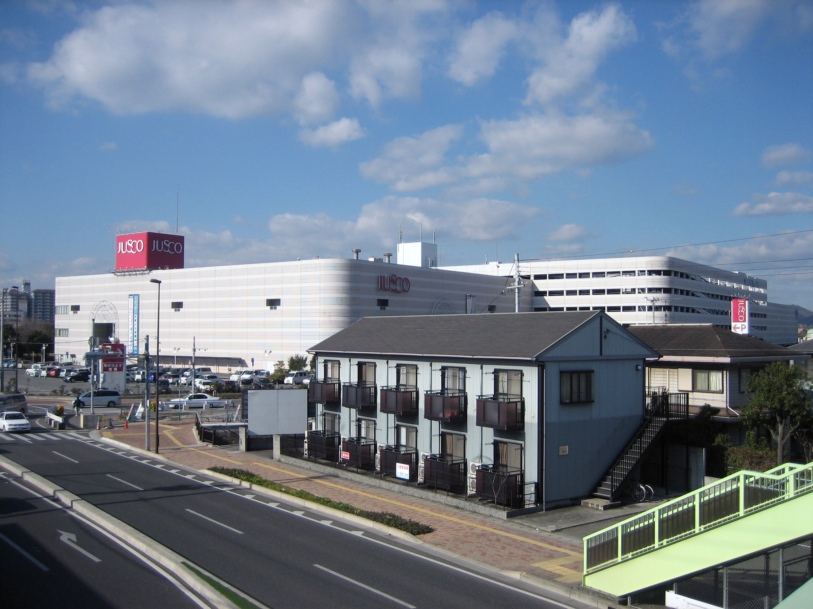 Himeji rivercity is a large scale shopping mall in Himeji City.